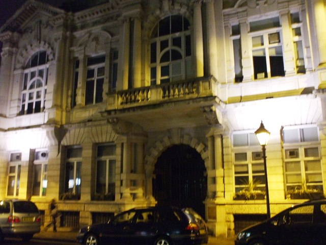 Fulham Town Hall, SW6 One of 2 entrances of Fulham Town Hall, this one is in Harwood Road.